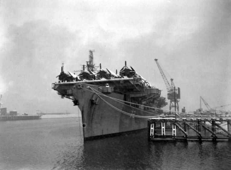 Bow view of British Bogue/Ameer class escort aircraft carrier HMS RULER docked with her flight deck packed with snow-covered Grumman Hellcat fighters